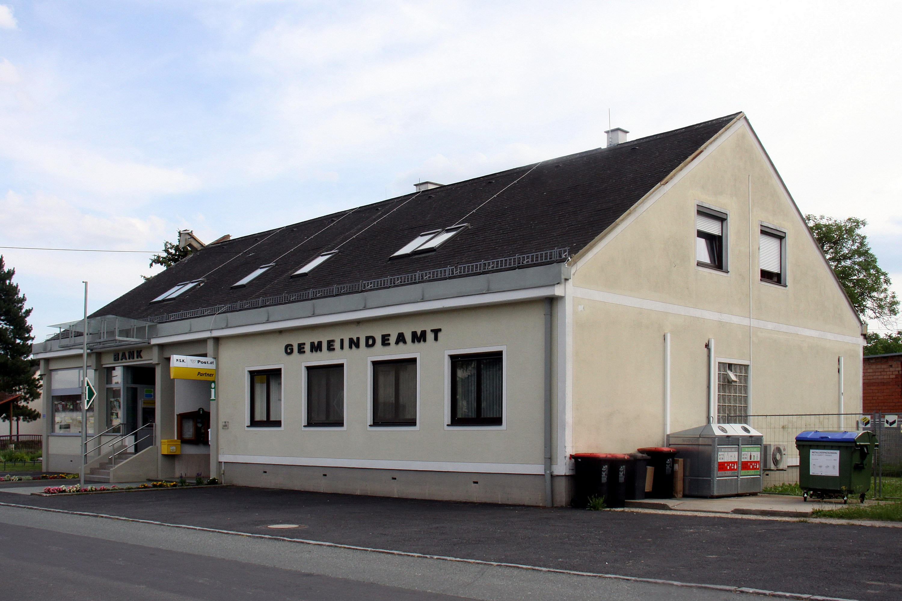 Strem - Muncipal office